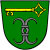 Coat of arms of the municipality Burweg in Lower Saxony, Germany.